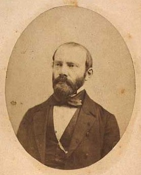 Sofus Magdalus Høgsbro (1822-1902), Danish educator and politician, member and speaker of the Danish Folketing